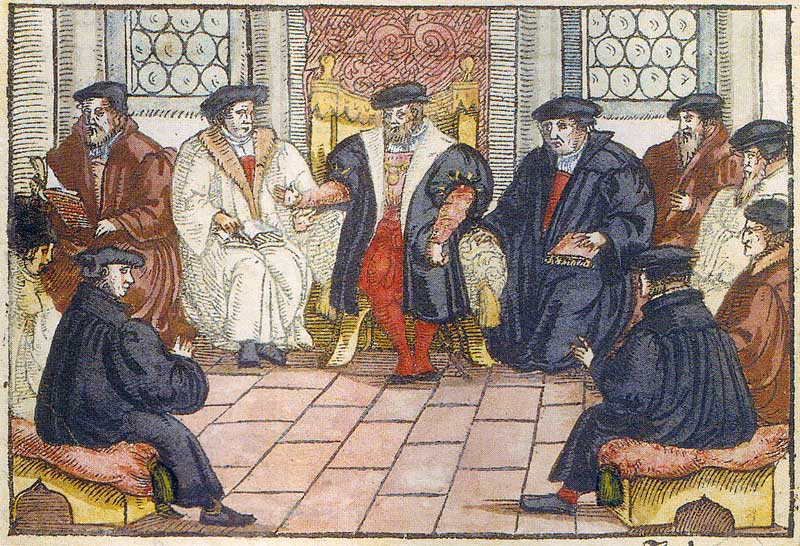 Religious Colloquium of Marburg, anonymous, wood carving, 1557 By invitation of the Landgrave Philipp of Hesse, Luther and Zwingli came to Marburg in September of 1529. They were accompanied by some of their followers, Melanchthon being among these. They were to settle their dispute about communion in which they were not successful.